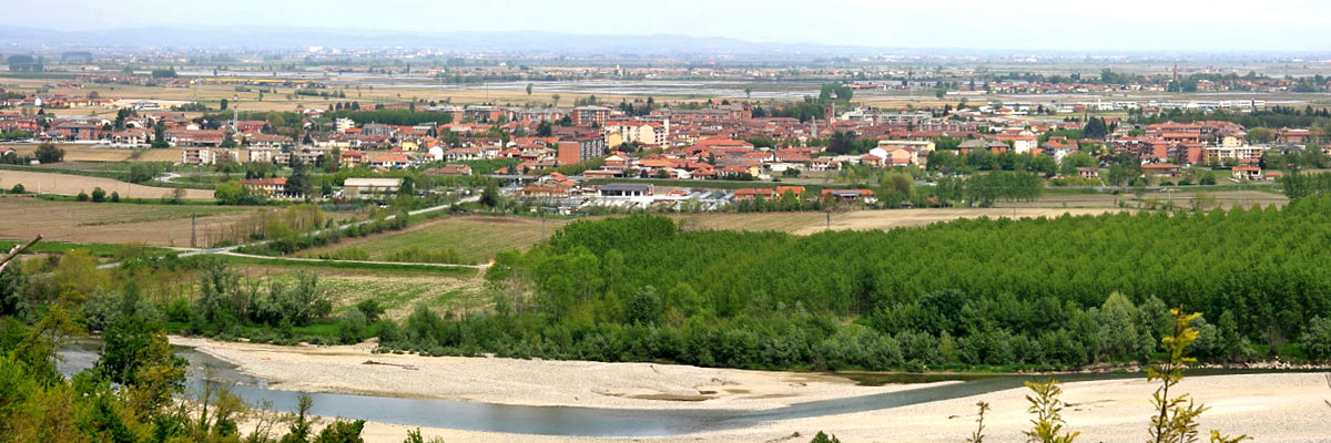 Panorama of Crescentino, Vercelli, Italy